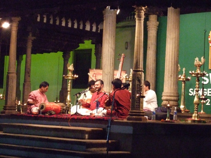 Swathi Sangeethotsavam: Artists performing